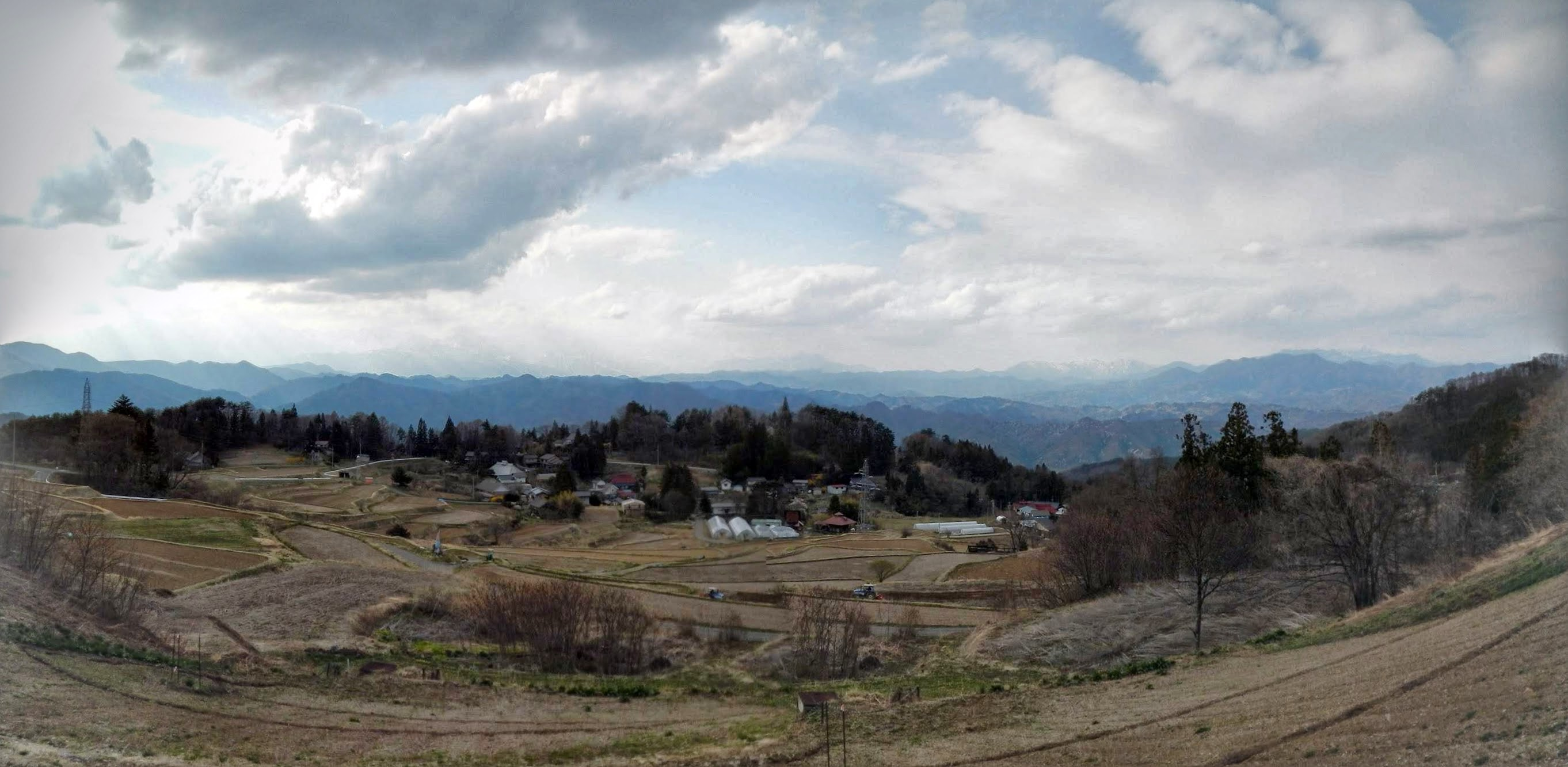 View of Ookanakamaki settlement in Nagano, Nagano Prefecture, Japan. Shot from Nagano Prefectural Road Route 12.